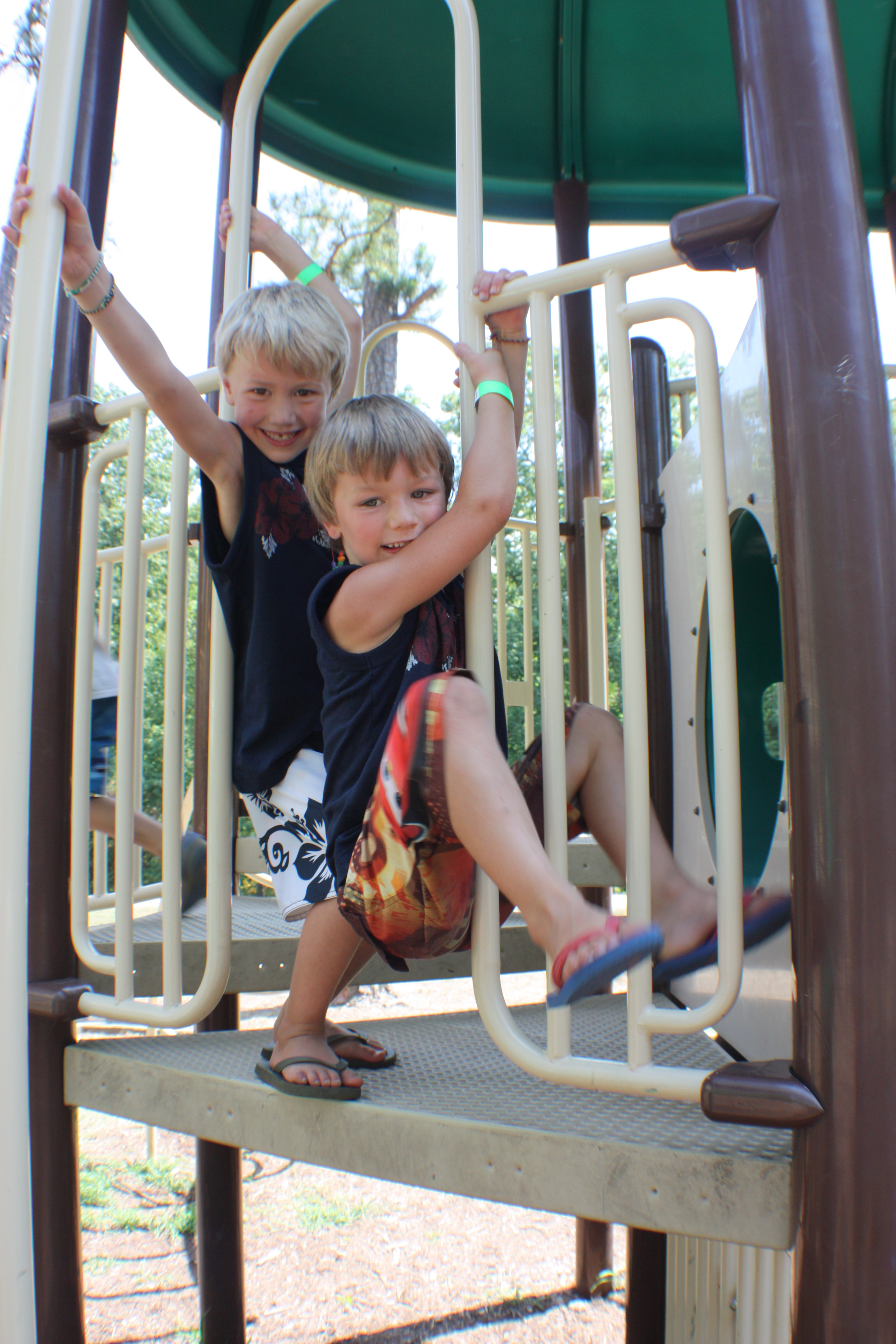 Playground Days